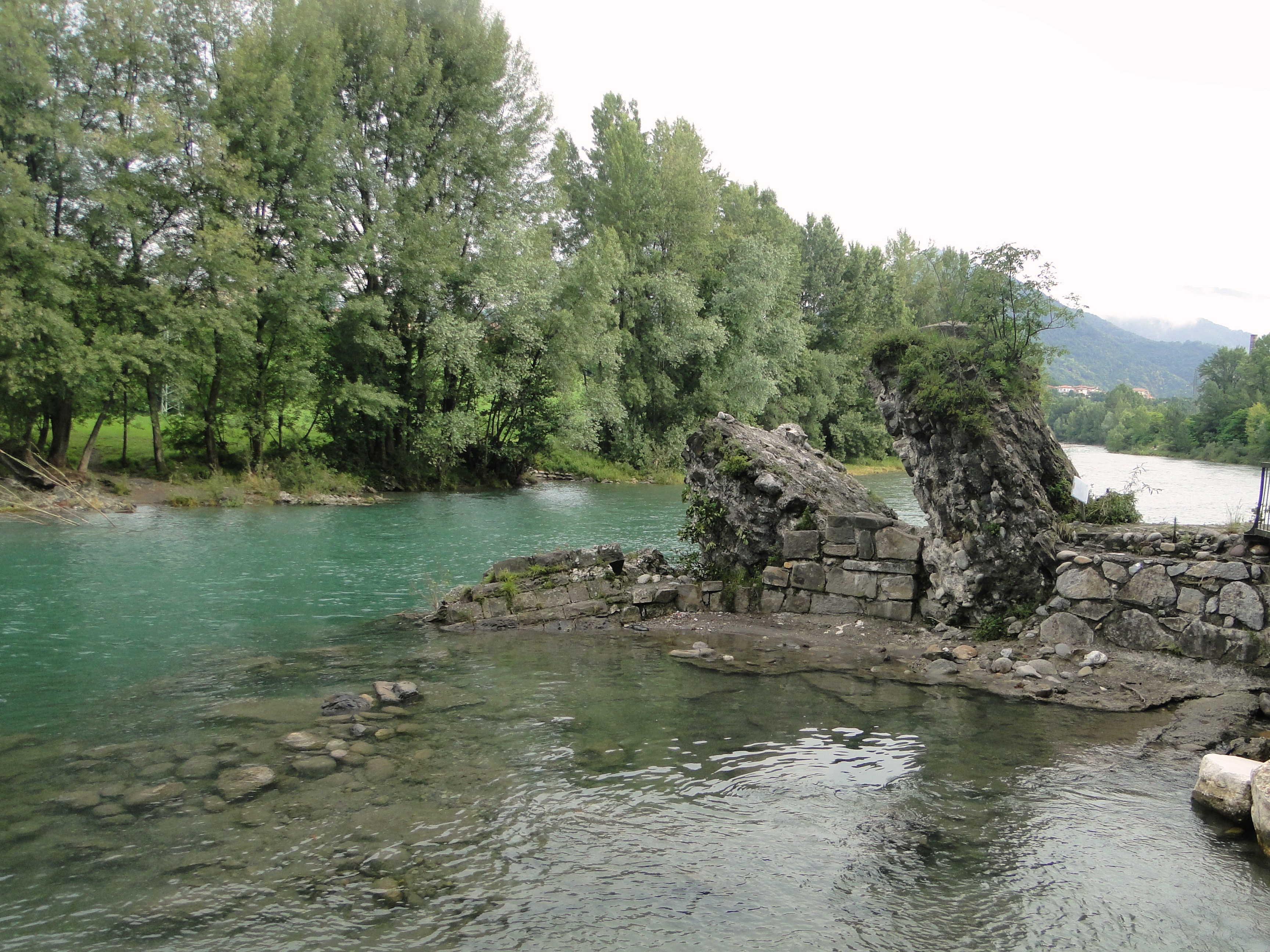 Ancient roman bridge, nemed "Ponte di Lemine", in Almè (BG), Italy